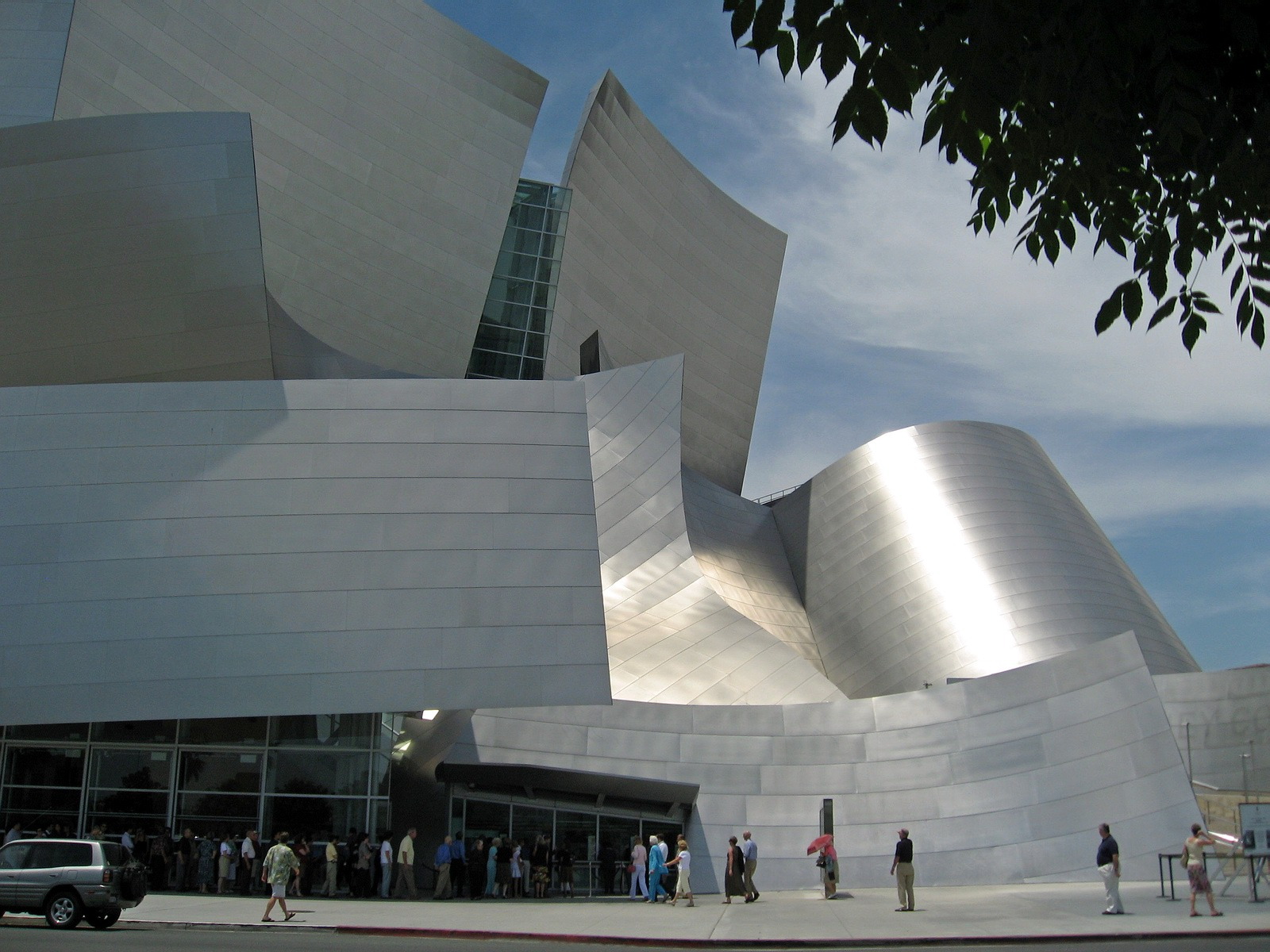 Walt Disney Concert Hall, Los Angeles, USA